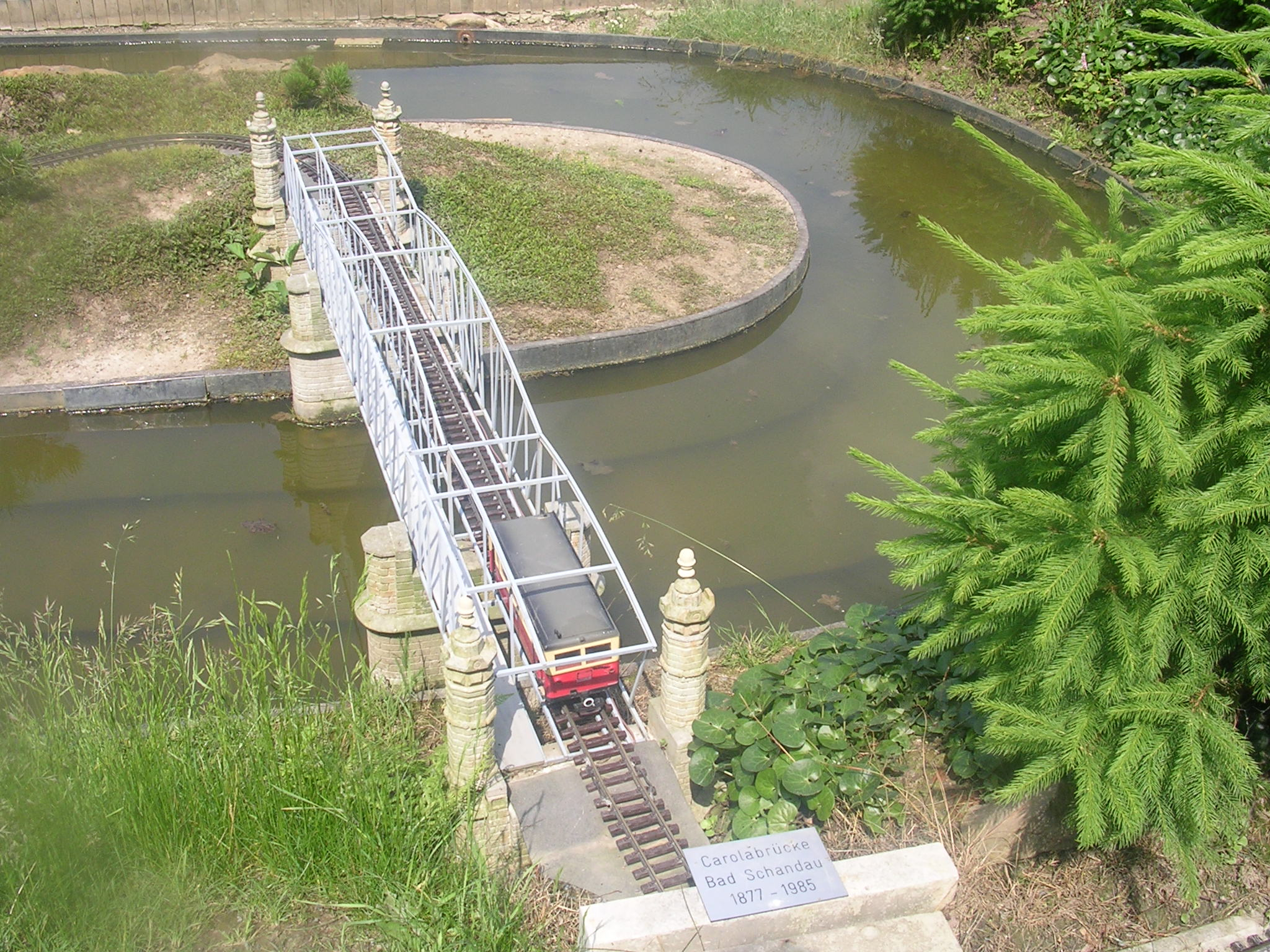 Little Saxon Switzerland is a park in Dorf Wehlen (Stadt Wehlen, Saxony, Germany) with models of buildings, nature und transport of Saxon Switzerland.